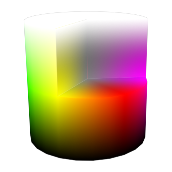 HSL cylinder